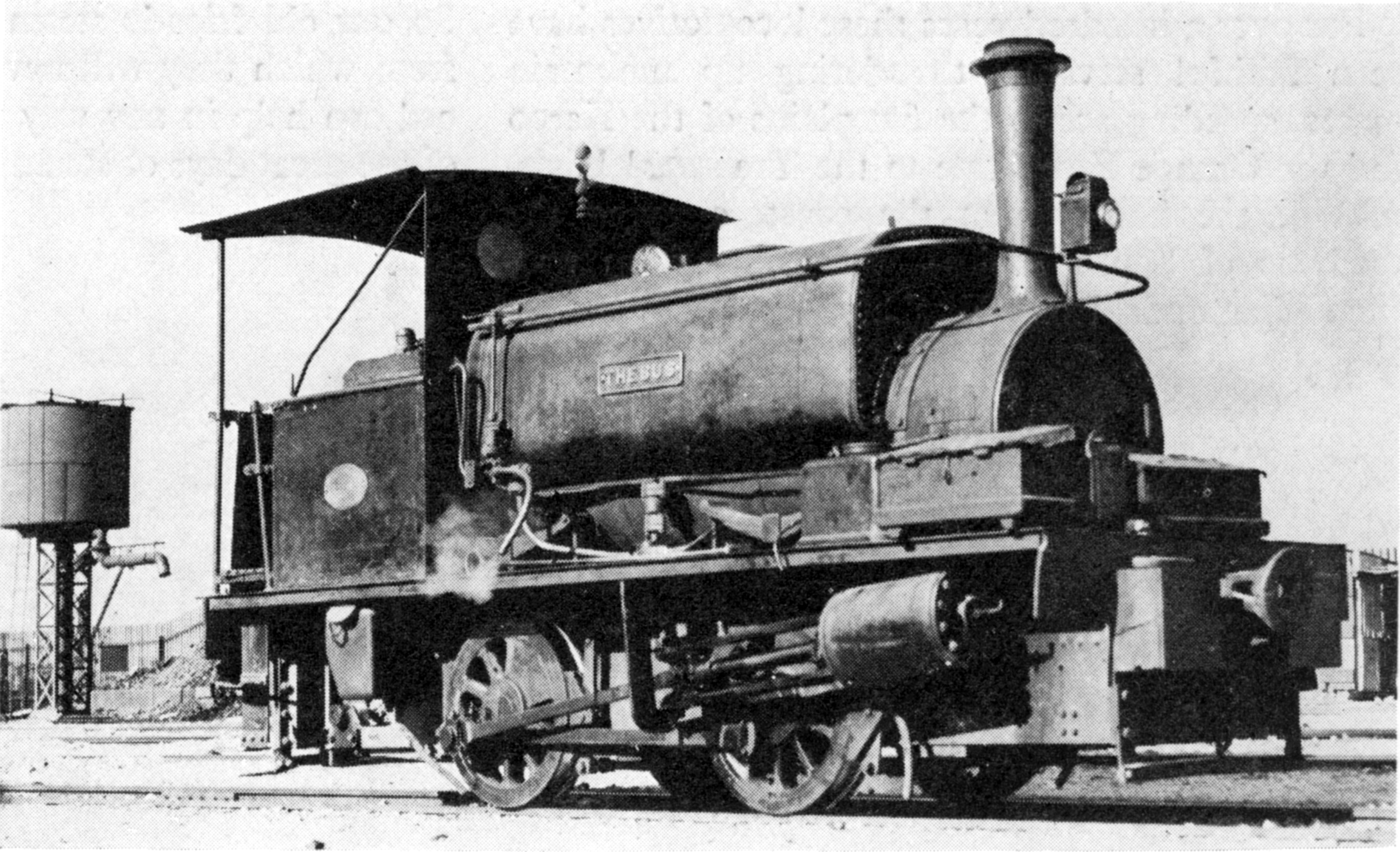 SAR Harbour locomotive "Thebus" (0-4-0ST)